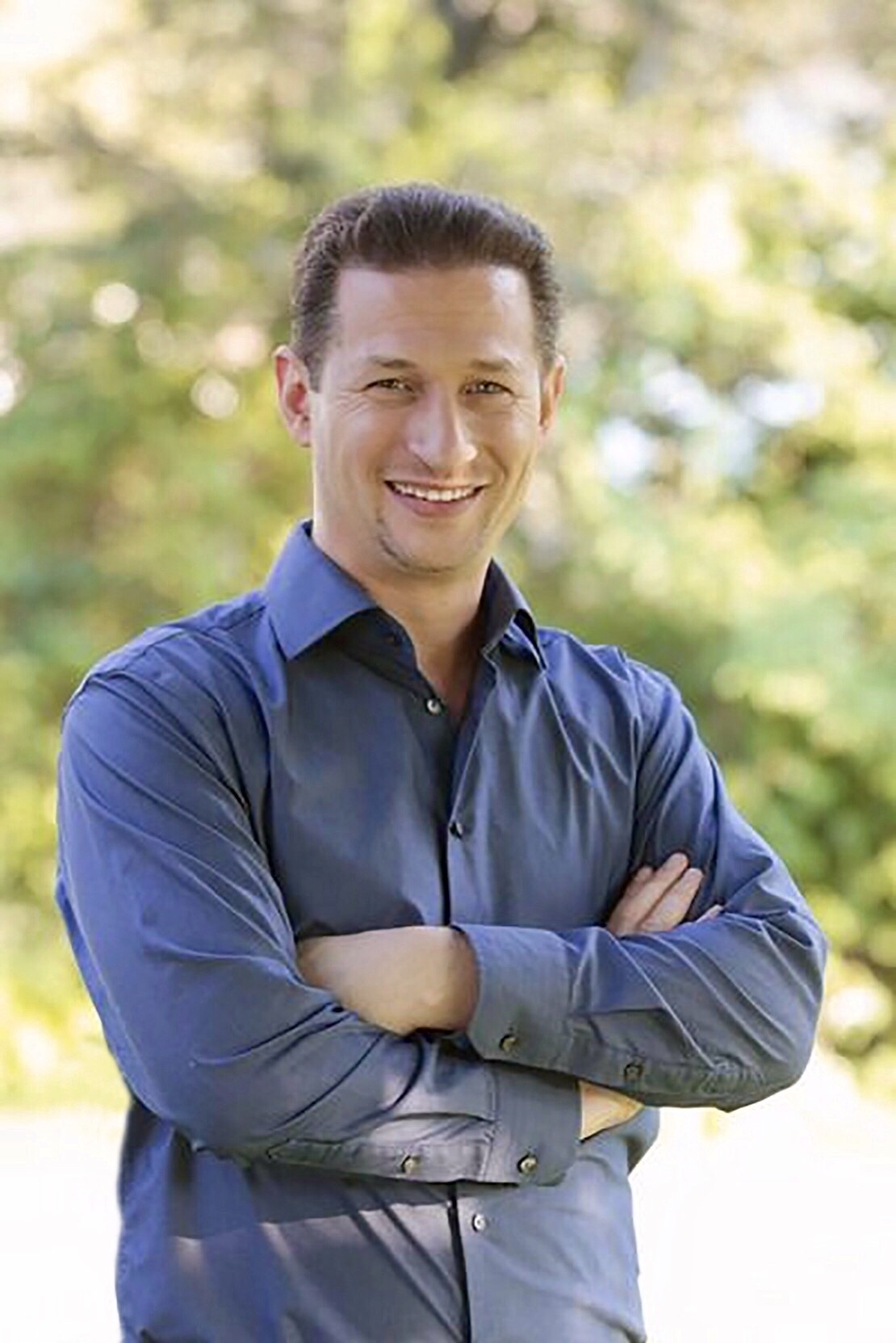 A headshot of Stephen Hersh taken in his backyard at his home in New York.